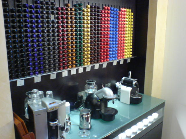 Photograph of the Nespresso boutique in Knightsbridge, London.